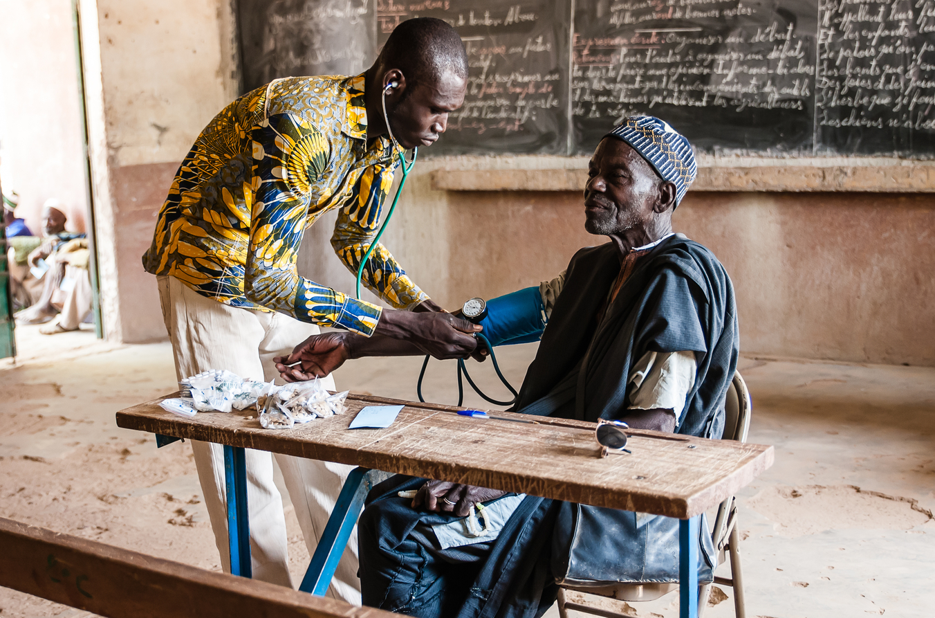 Many village people showed up for a check-up: readily and happily. For most people, it was a health check since a long, long time..., in N'Tossoni, near Koutiala, Mali This is an image of "African people at work" from Mali